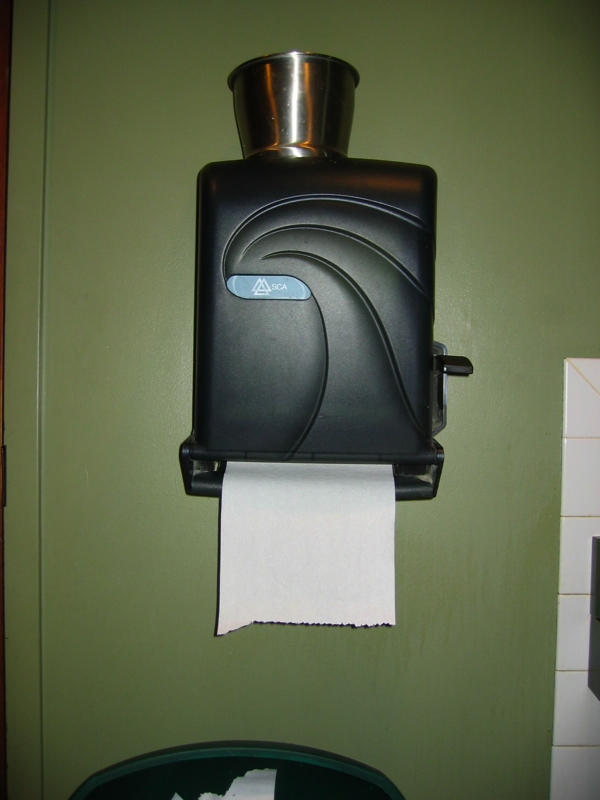 paper towel dispenser with a spring load and little handle: like the other spring loaders, but with a much smaller crank -- affords elbow use!